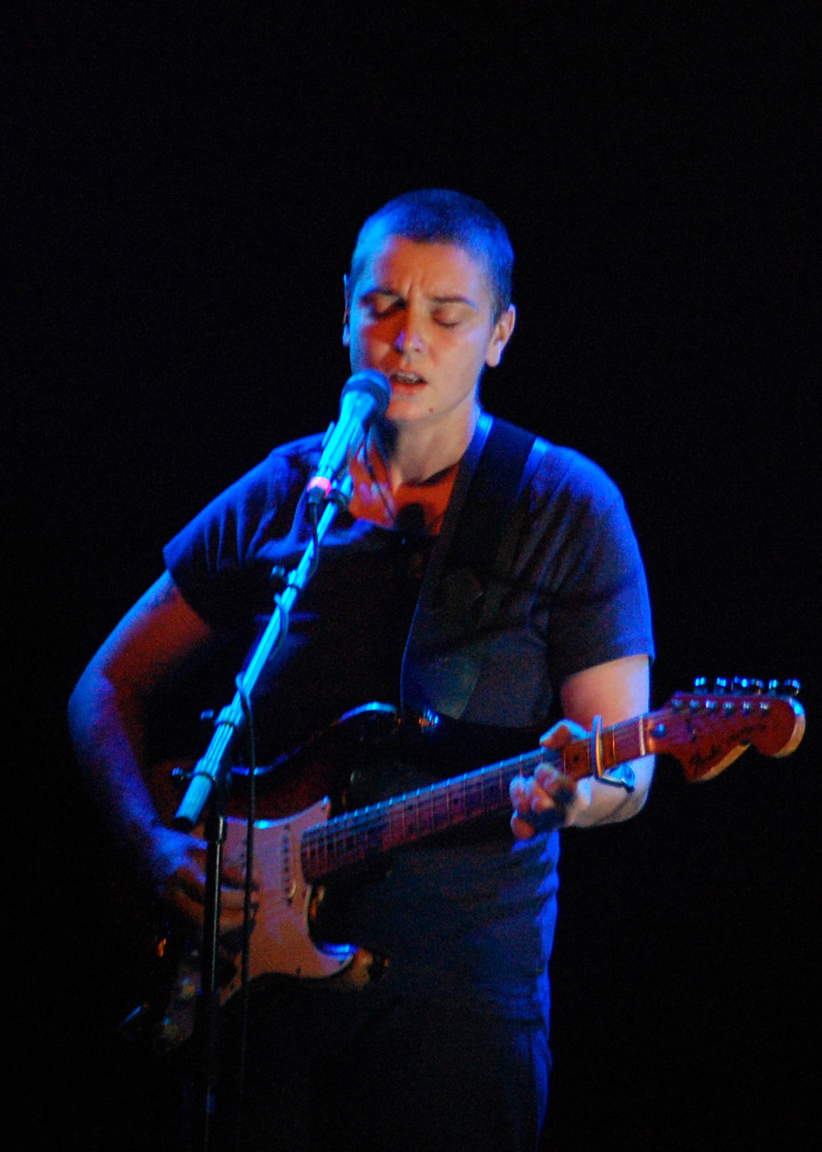 Sinéad O'Connor at The Music In My Head 2008 in The Hague